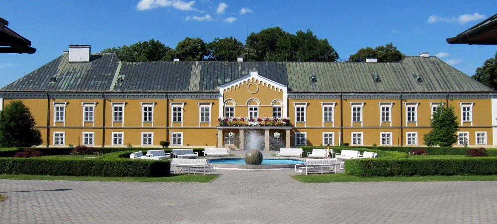 Manor-house in Lednické Rovne